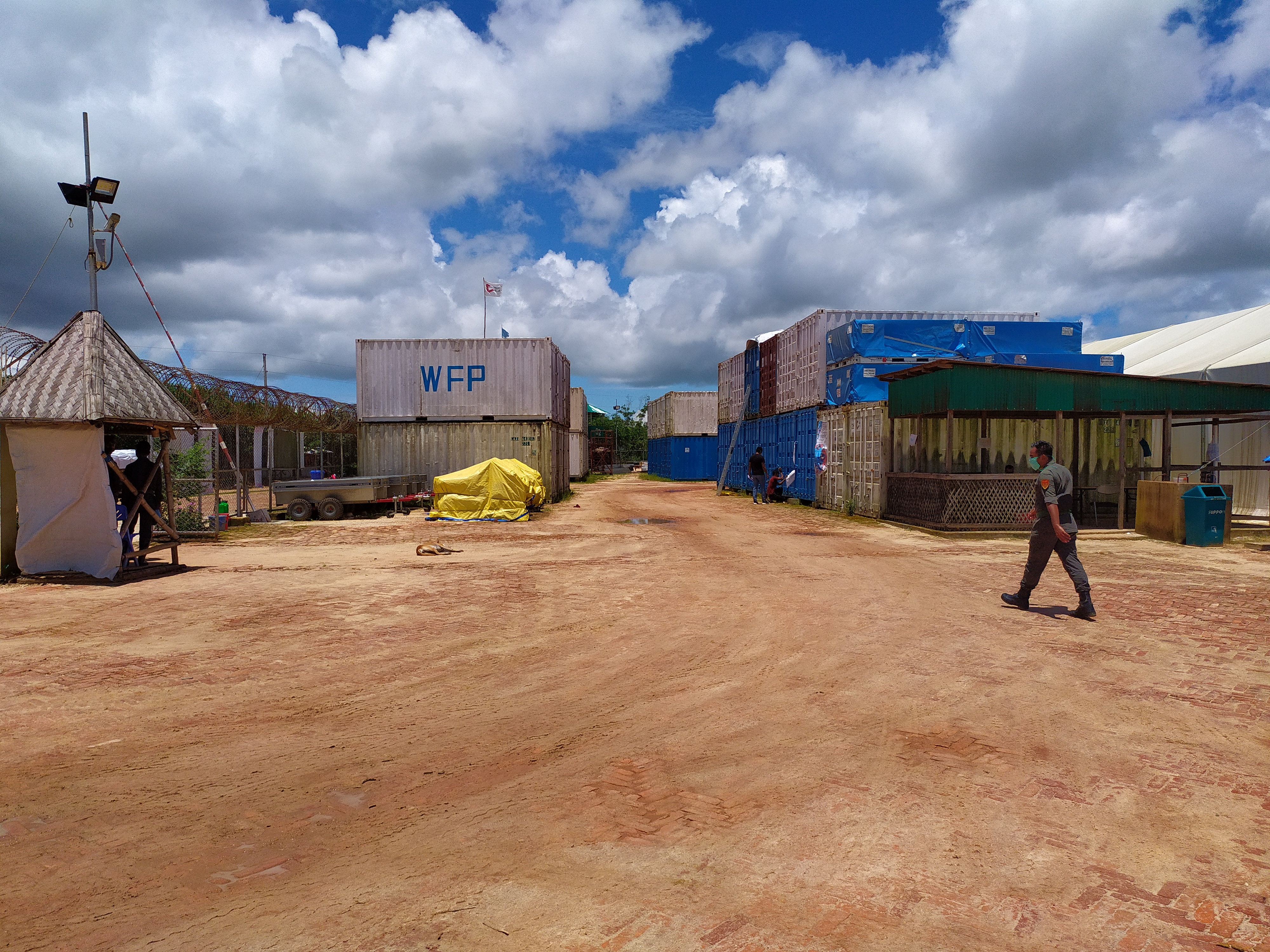 Logistics Sector of WFP, Ukhiya, Cox's Bazar, Bangladesh